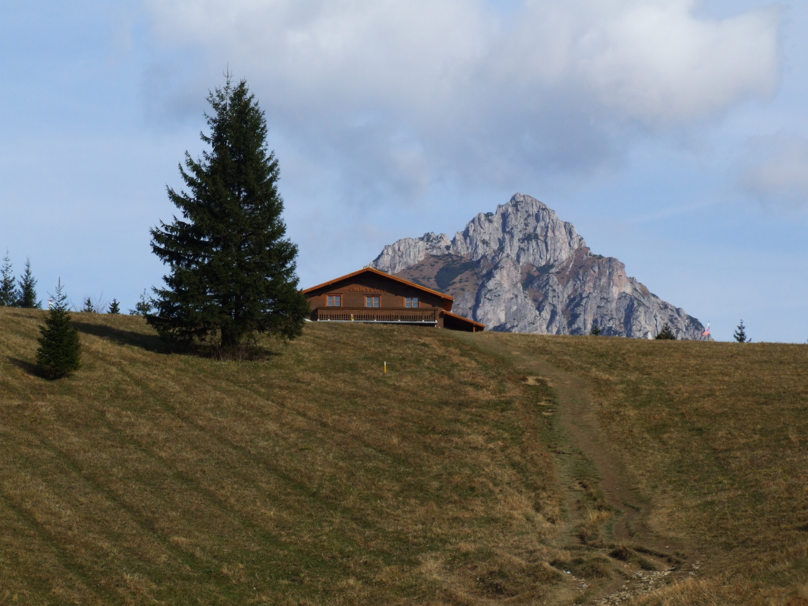 Mountain hut Chata na Grúni and Veľký Rozsutec, Lesser Fatra